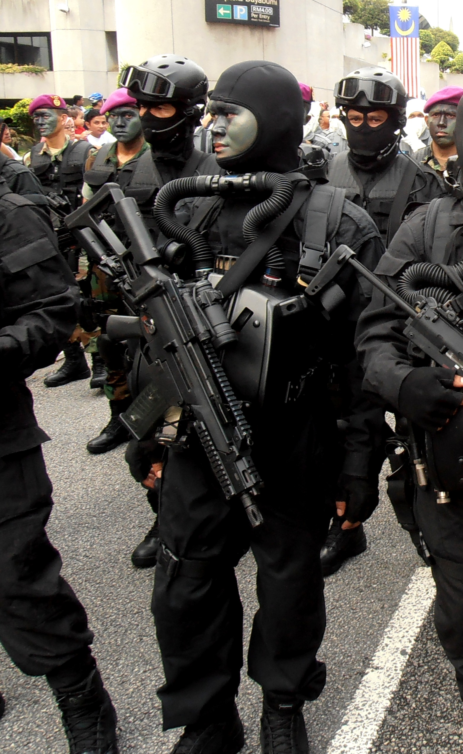 PASKAL frogman personnel has a slung HK G36C carbine on standby at the Merdeka Square, Kuala Lumpur, Malaysia during the National Day Parade of 2014.